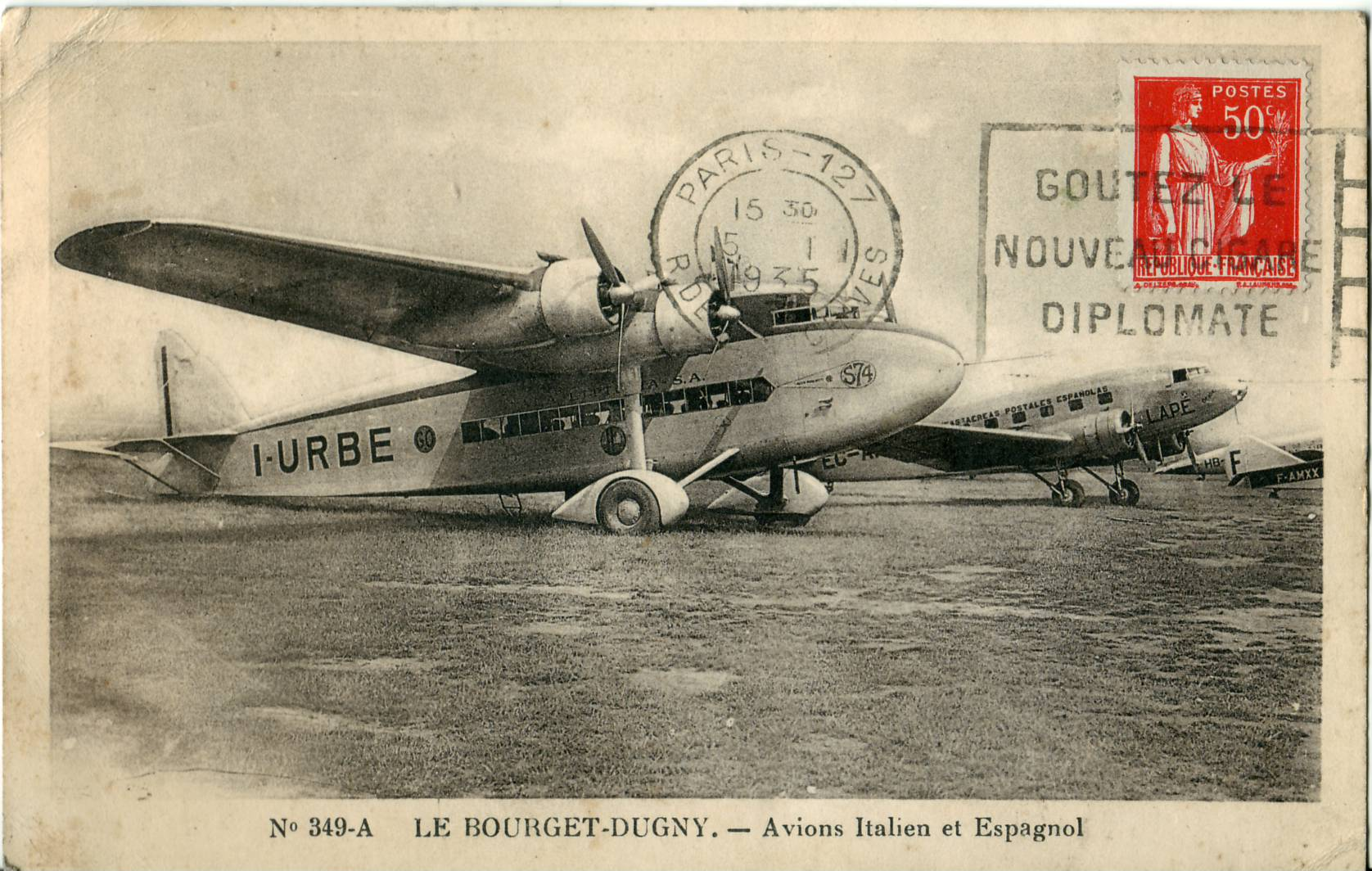 Paris - Le Bourget Airport in the years '30 : The I-URBE is a Savoia-Marchetti S.74; the second aircraft is a Douglas DC-2 operated by LAPE (Líneas Aéreas Postales Españolas)